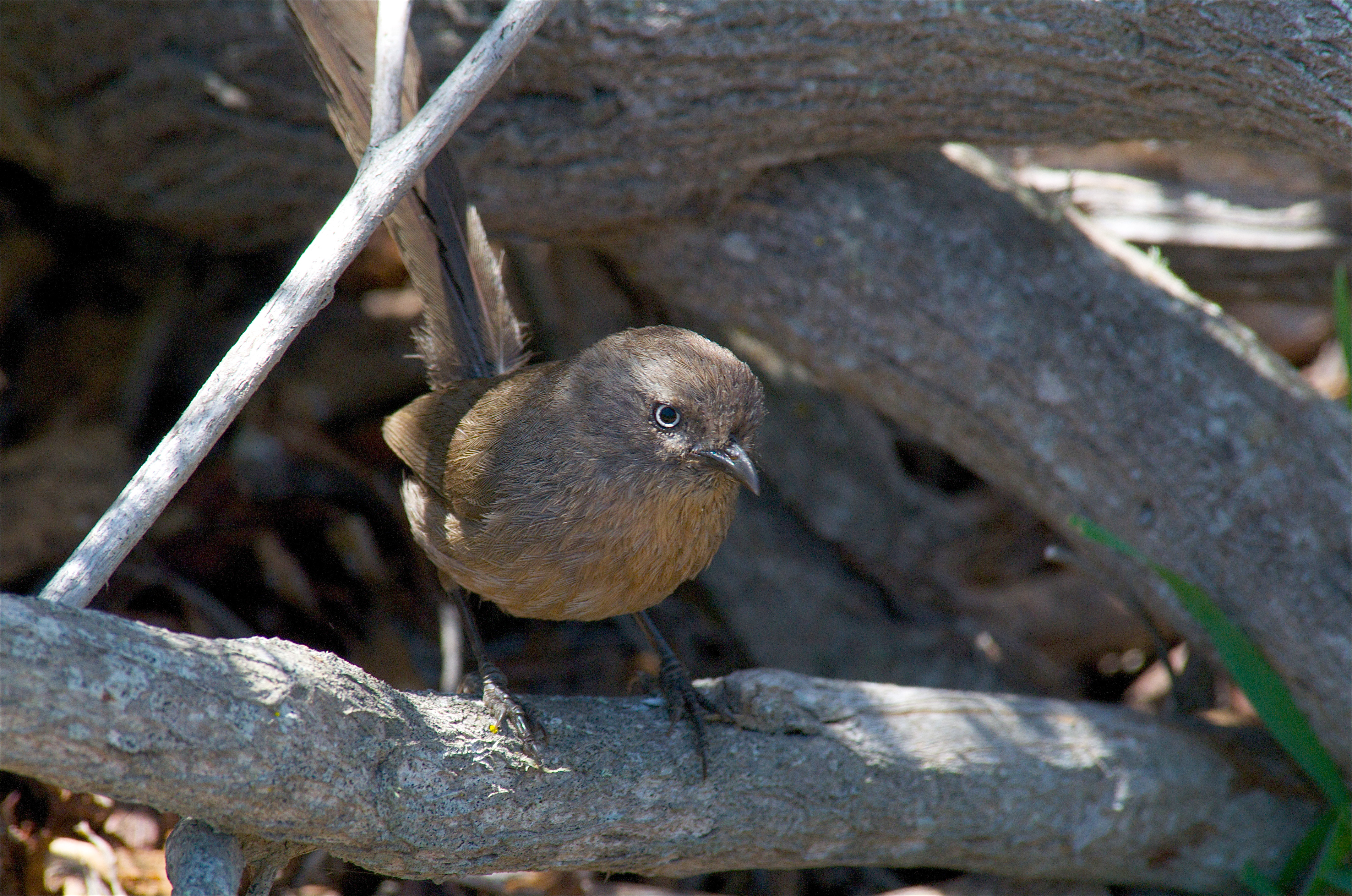 Wrentit — Chamaea fasciata. The eye is so penetrating. This is one of the most common birds to hear, but not one to be seen very often. I was lucky to have it sit still long enough to show its yellow eye. Morro Bay, California.